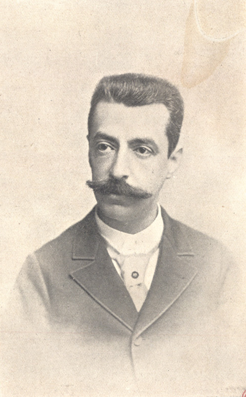 Photograph of Portuguese Republican politician Teixeira Bastos, included in the Album Republicano, published in 1908.